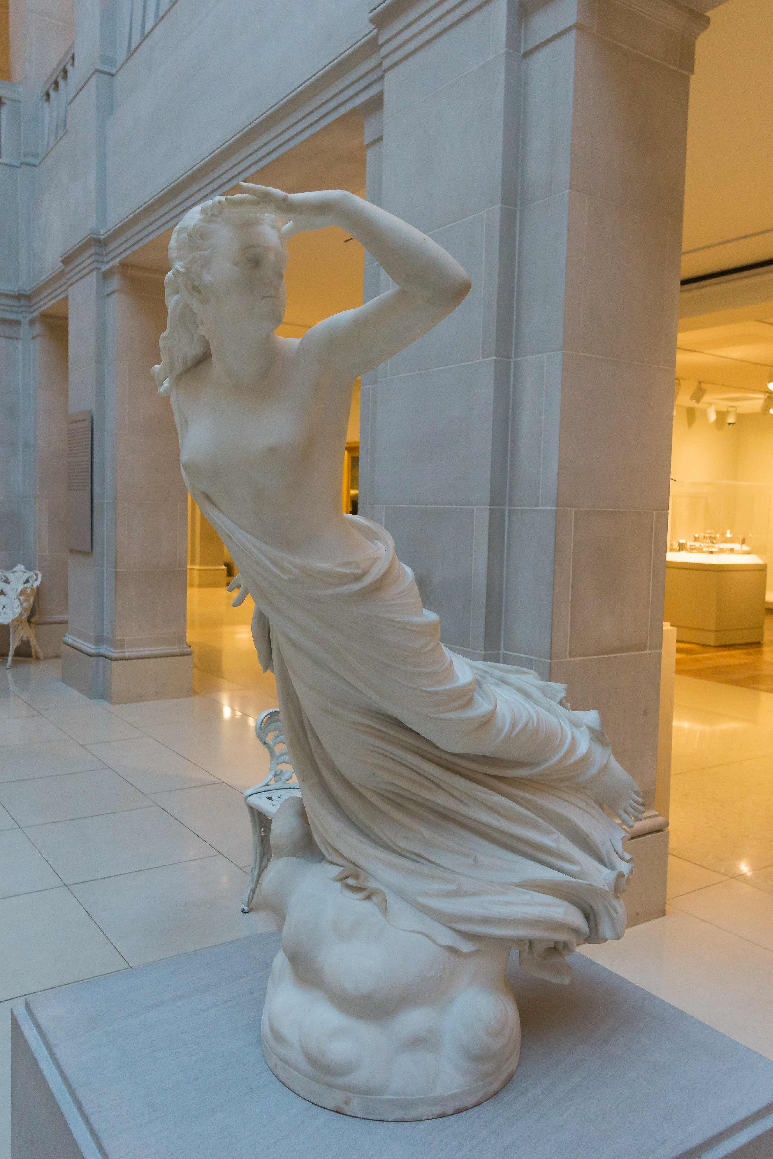 The Lost Pleiade